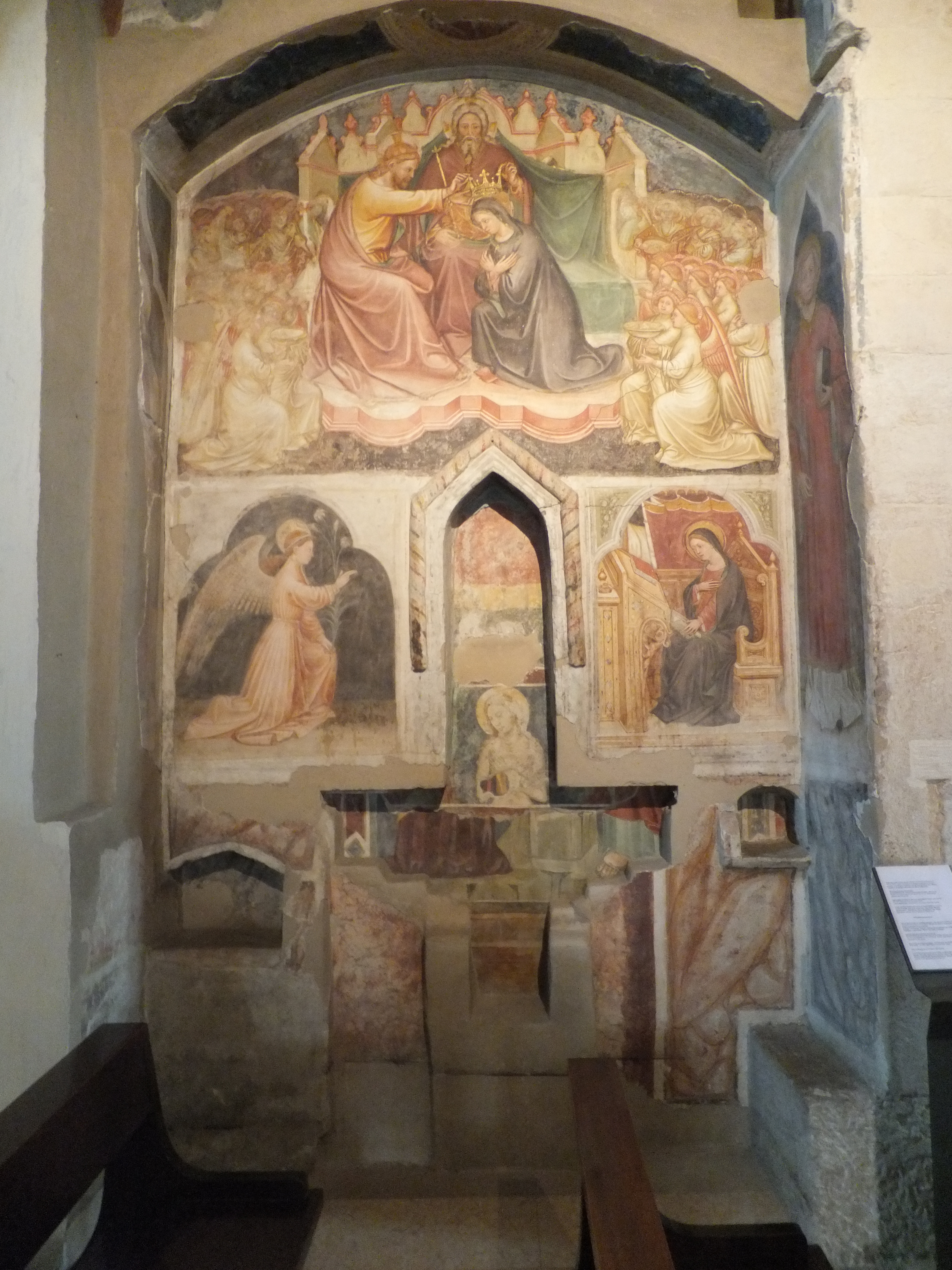 Verona, church of Saint Stephen - Fresco